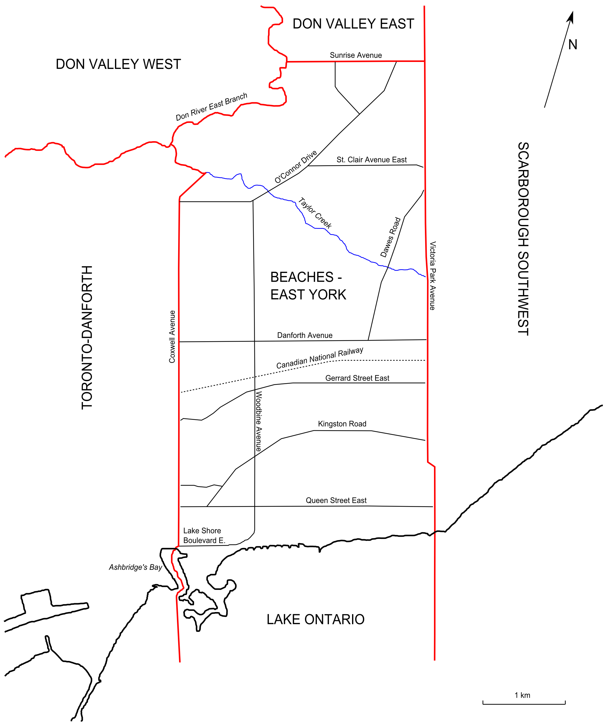 A street map of the Ontario federal and provincial riding of Beaches-East York (boundaries defined federally in 2003 and adopted provincially in 2007)